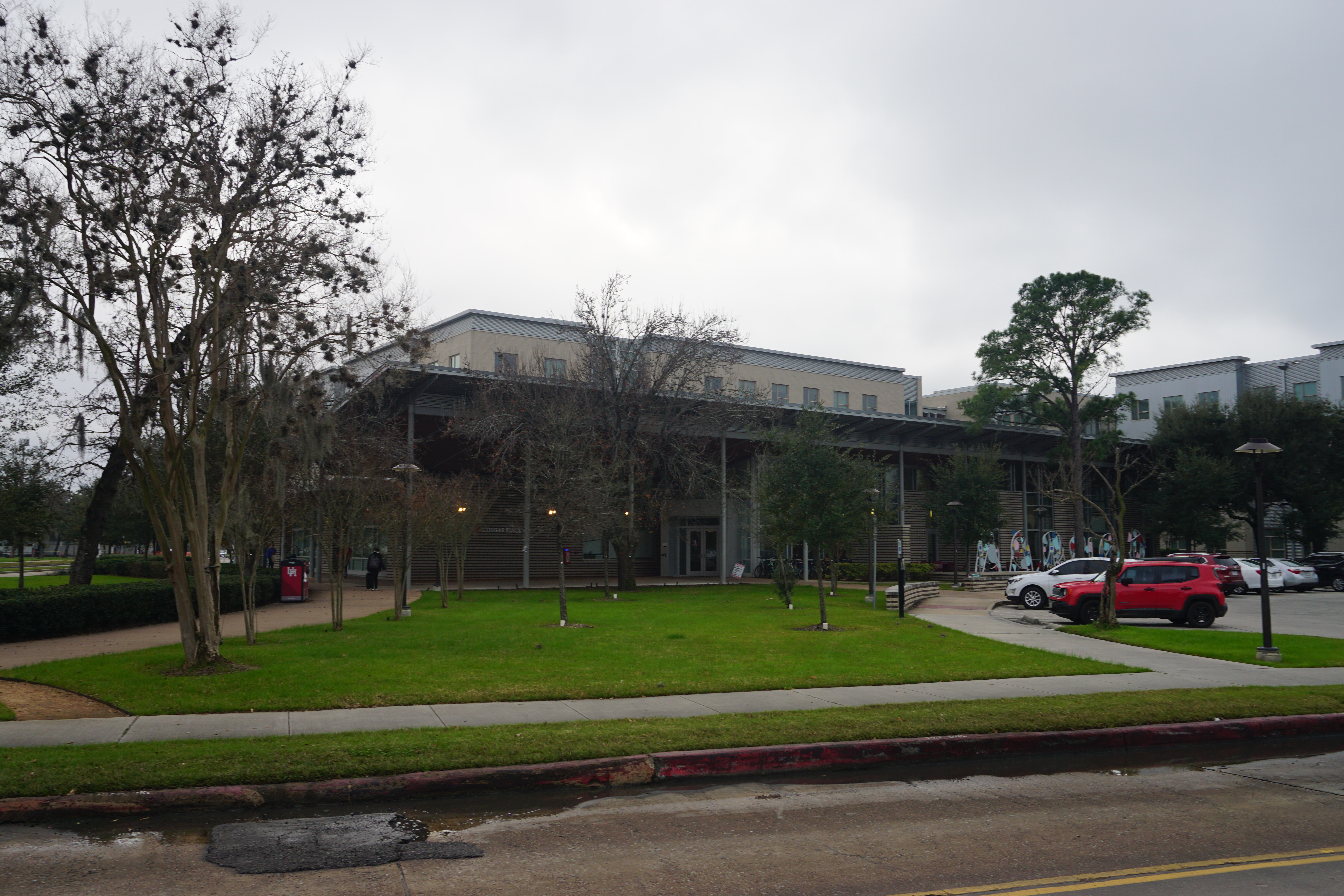 Cougar Place on the campus of the University of Houston in Houston, Texas (United States).